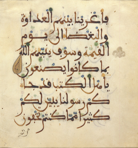 Folio from a Koran (Surat Al Ma'ida) written in Maghrebi script. Ink, opaque watercolor, and gold on parchment H: 16.6 W: 15.6 cm North Africa